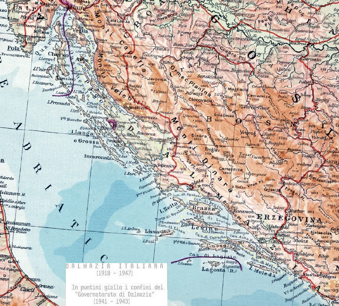 Italian Dalmatia. Borders of Italian Dalmatia between 1918 and 1947. Original map taken from italian "middle school" schoolbook of 1933 (GEOGRAFIA DEL REGNO D'ITALIA di Giacomo Stefanelli, EDITORIALE BALILLA, ROMA 1933, ANNO XI). I have added the borders (in yellow) of the Italian "Governatorate of Dalmatia" (1941-1943).